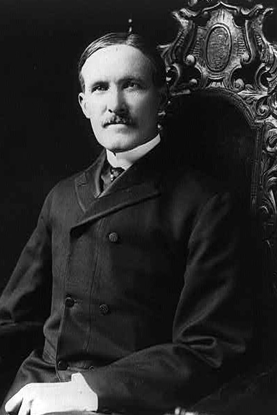 Bernard Shandon Rodey, Congressional Delegate from New Mexico Territory